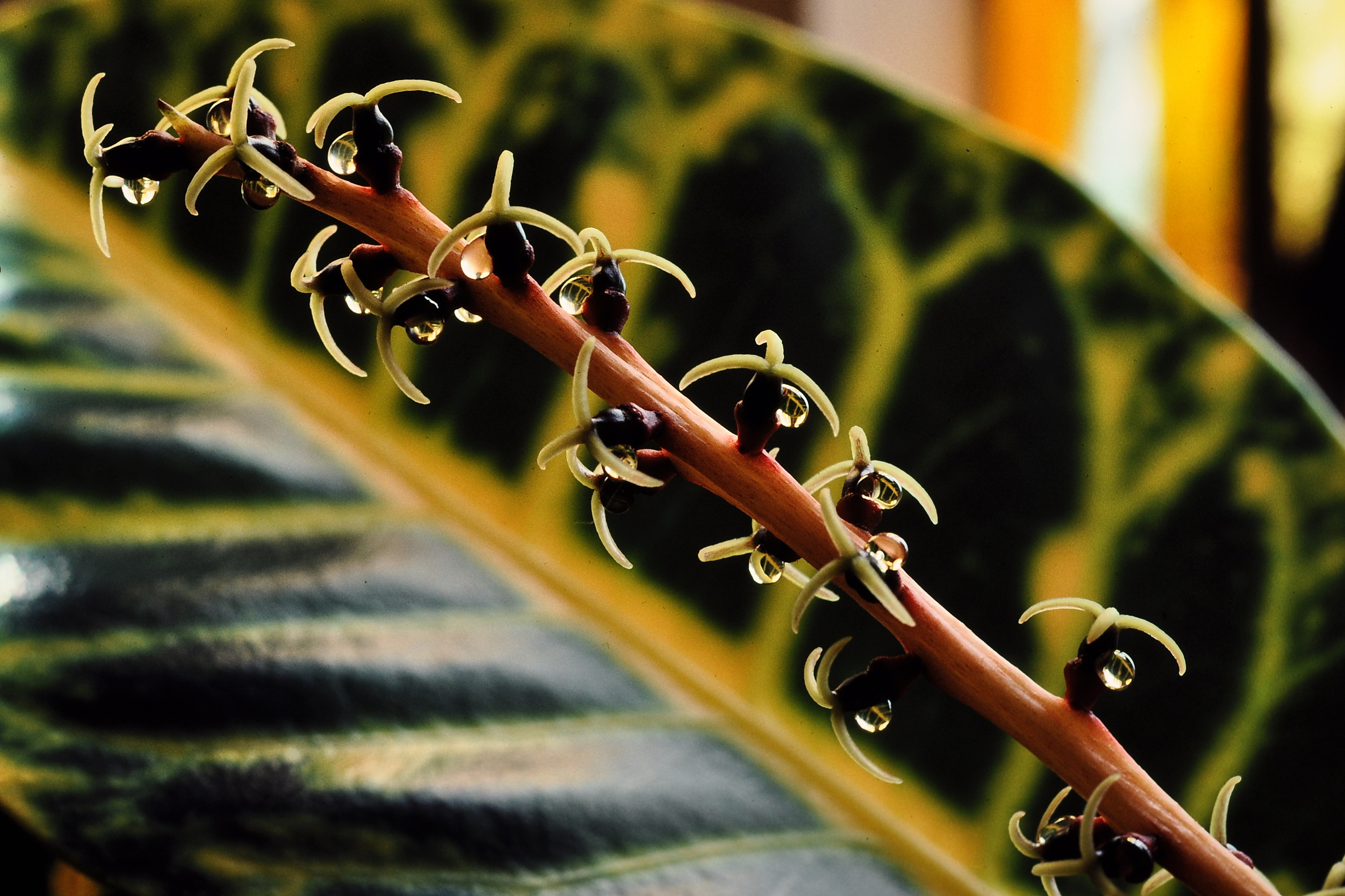 Garden Croton (Codiaeum variegatum)